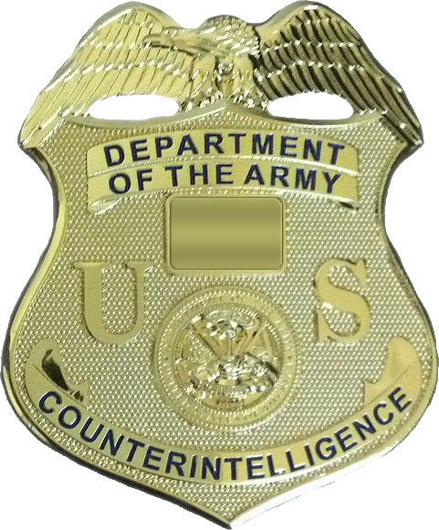 Image resembles the United States Army Counterintelligence Special Agent badge, but has significant differences for security purposes. Made using Photoshop.